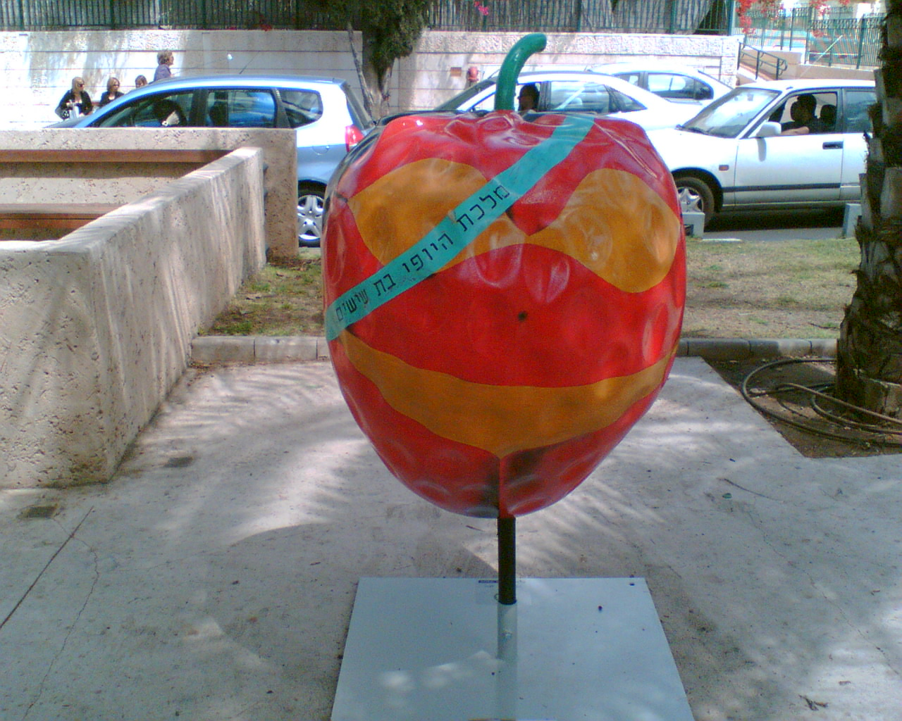 "Malkat Hayofi", sculpture by Oded Feingersh, "Strawberries at Ramat Hasharon" exhibition